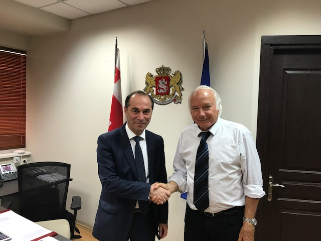 Meeting with Zaza Sopromadze, deputy Minister of Health of Georgia in 2017